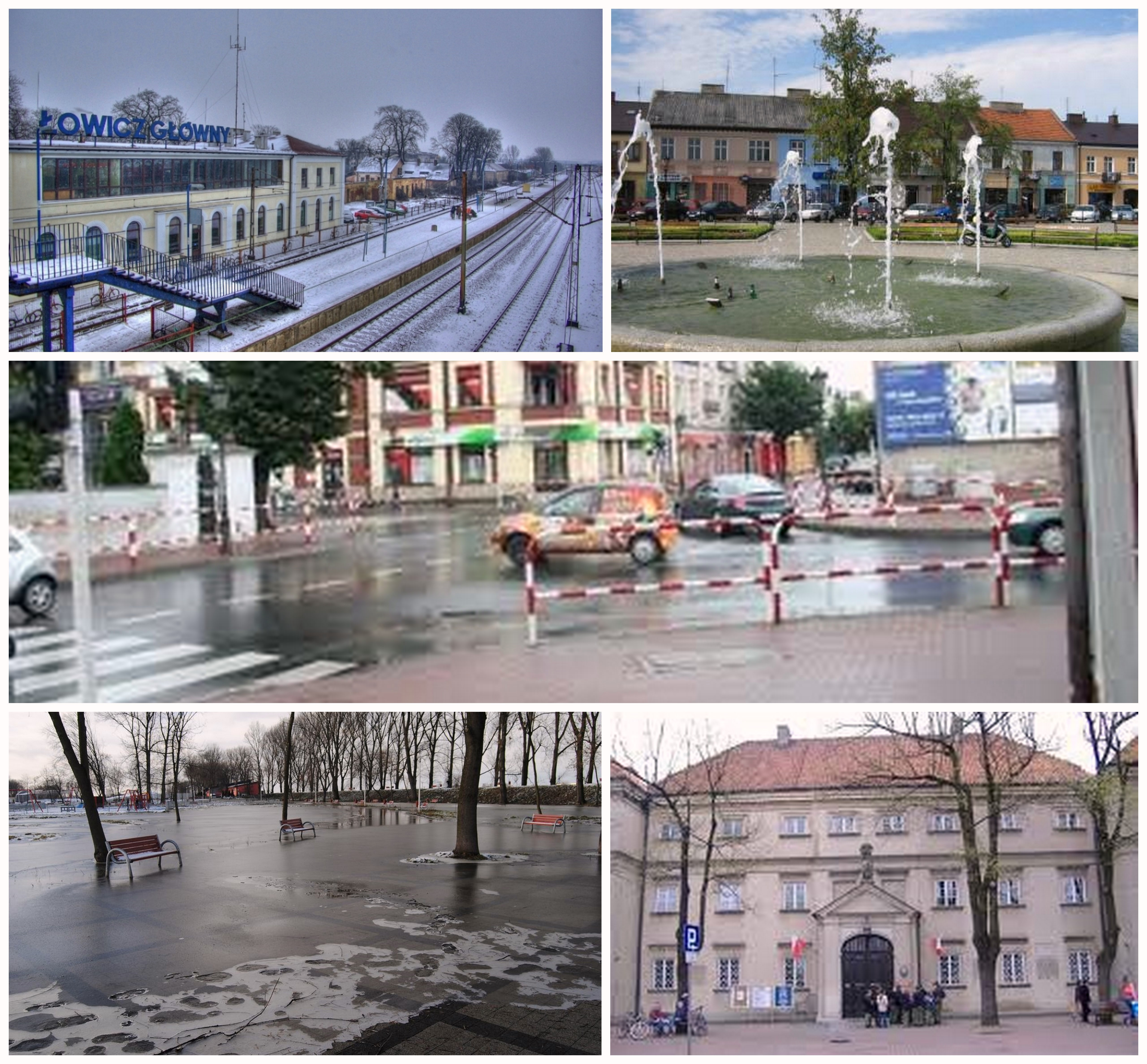 Top: Station Łowicz, Middle left: Colecium, Middle right: New place, Bottom left: Museum in Łowicz, Bottom right: City-hall